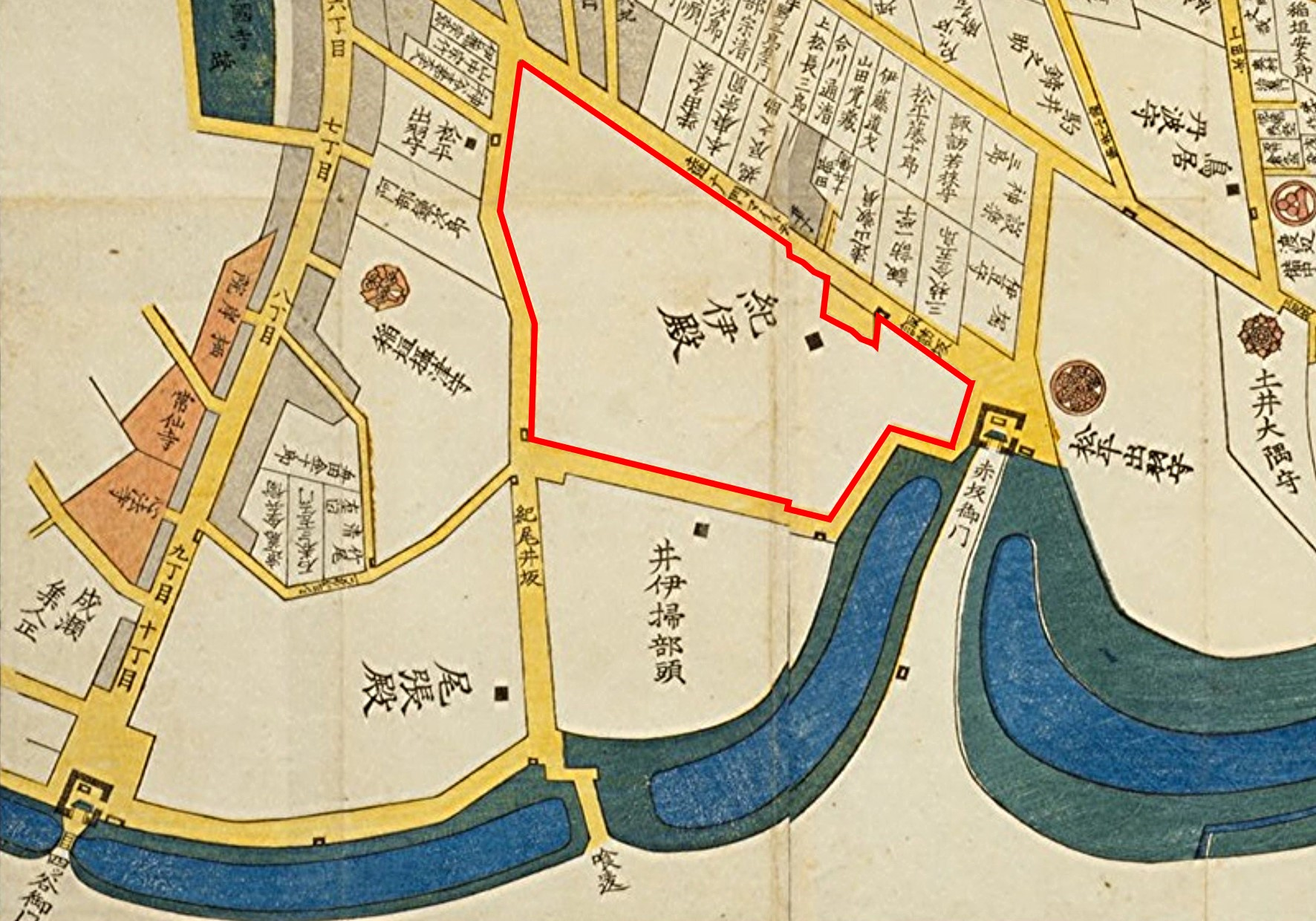 Naka-yashiki of tokugawa-Kii at Edo